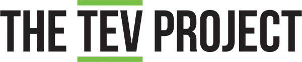 This is the official logo of the TEV Project.